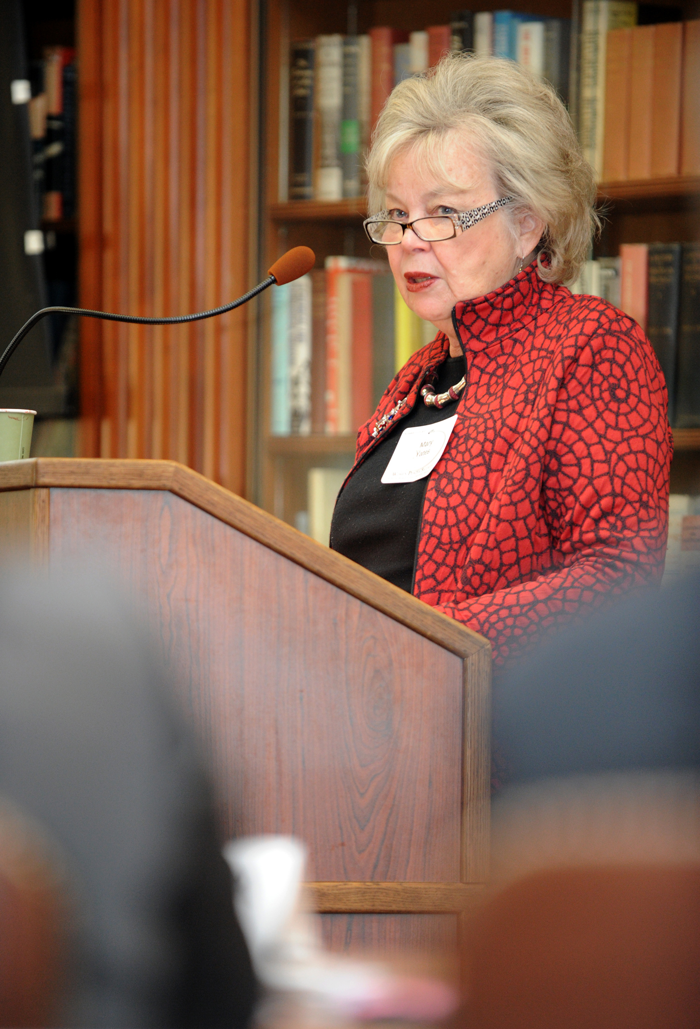 131212-N-PX557-067 NEWPORT, R.I. (Dec. 12, 2013) Retired Ambassador Mary Carlin Yates addresses participants of the Women, Peace and Security conference in Mahan Hall at U.S. Naval War College (NWC) in Newport, R.I. The 2013 conference served as an opportunity to hold discussions related to the implementation and sustainment of the Dec. 19, 2011 U.S. National Action Plan on Women, Peace and Security. (U.S. Navy photo by Chief Mass Communication Specialist James E. Foehl/Released)